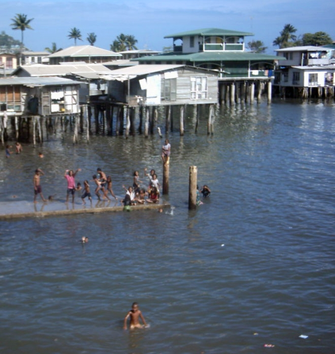 Koki, Port Moresby, Papua New Guinea